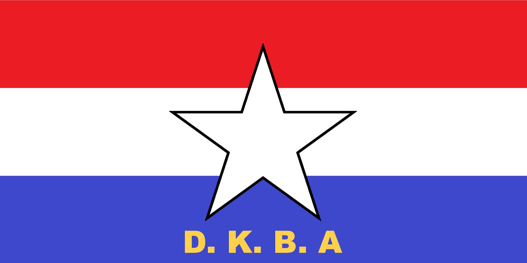 Flag of the DKBA, used presently by DKBA-5.